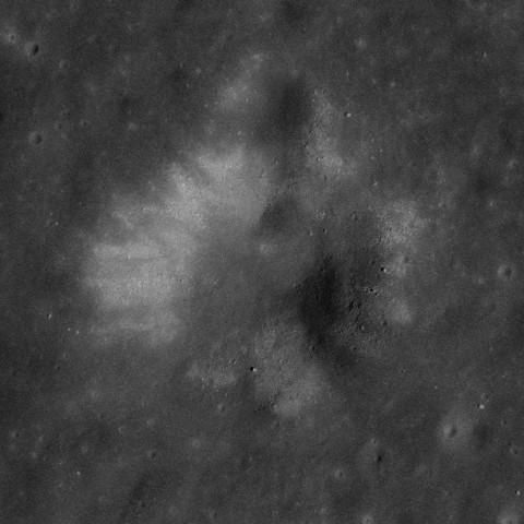 Steno crater, Taurus–Littrow valley, on the moon. Sun elevation 46 deg., spacecraft altitude 112 km.